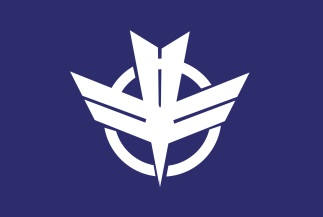 Flag of Shibata Miyagi